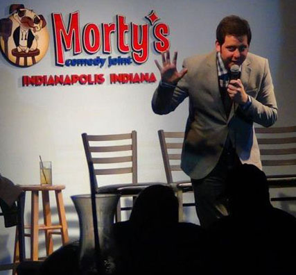 Comedian and television personality Ben Gleib doing a standup routine at Morty's Comedy Joint in Indianapolis, Indiana on 10 February 2013.